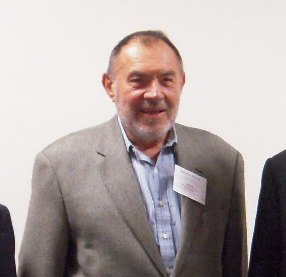 SD at the ADM-50 conference at Texas A&M University, College Station TX